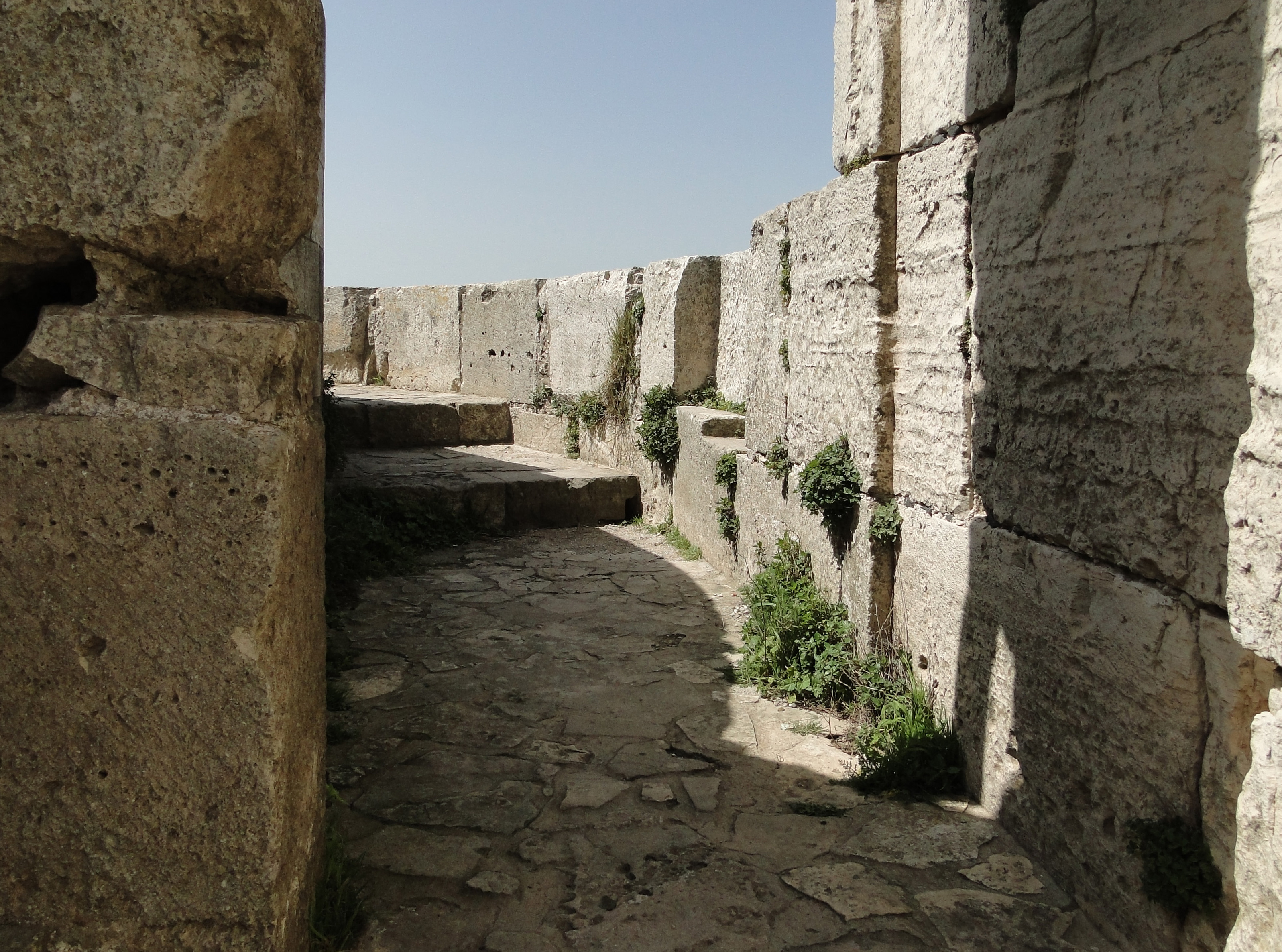 Chemin de ronde of Krak des Chevaliers, Syria